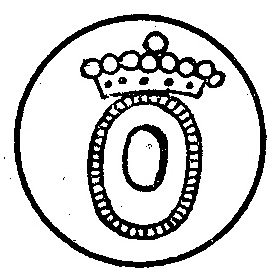 Seal of Ortala ironworks in Sweden, 18th century.